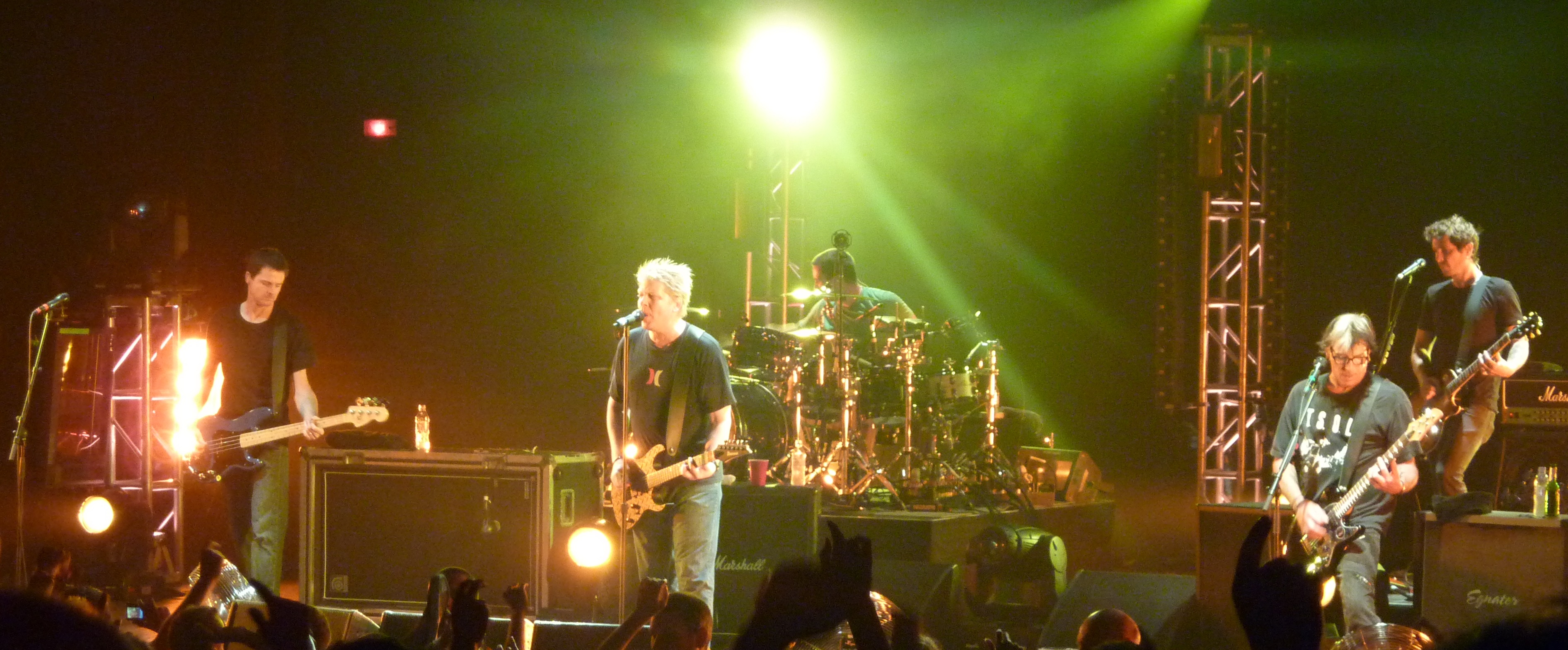 The Offspring performing at Stockwell in London, 29th August 2009